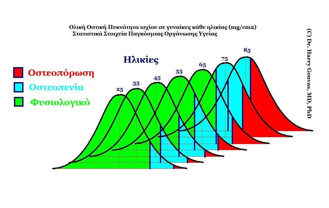 Osteoporosis prevalence